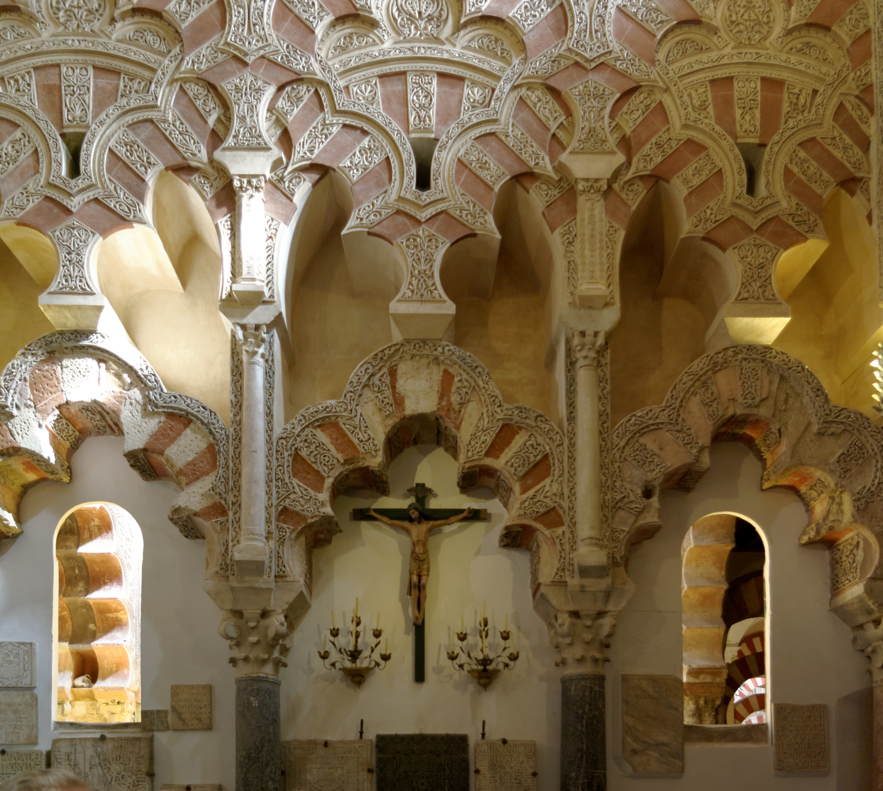 Spain, Cordoba, Mosque-Cathedral